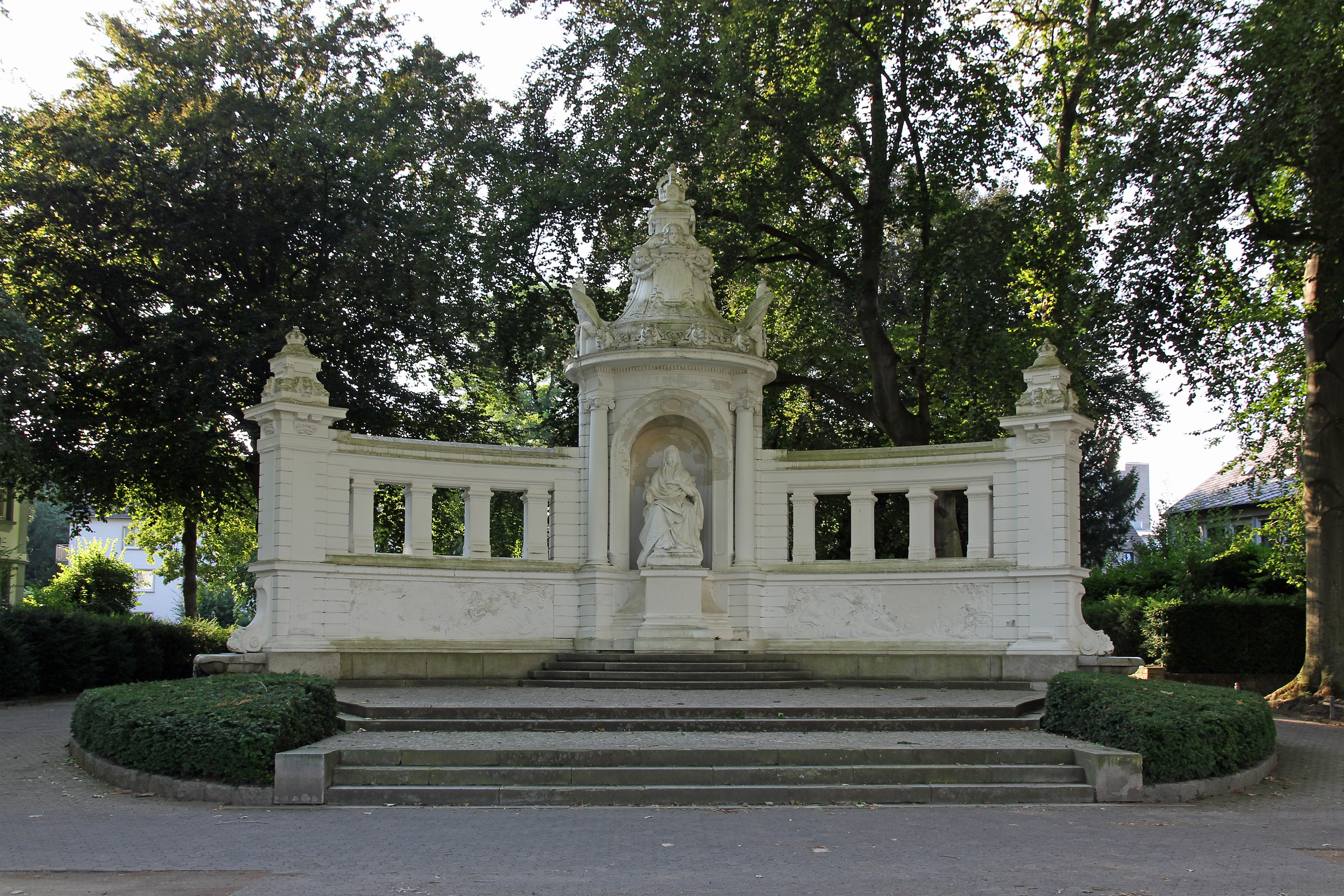 Augusta-Monument in the rhine park of Koblenz